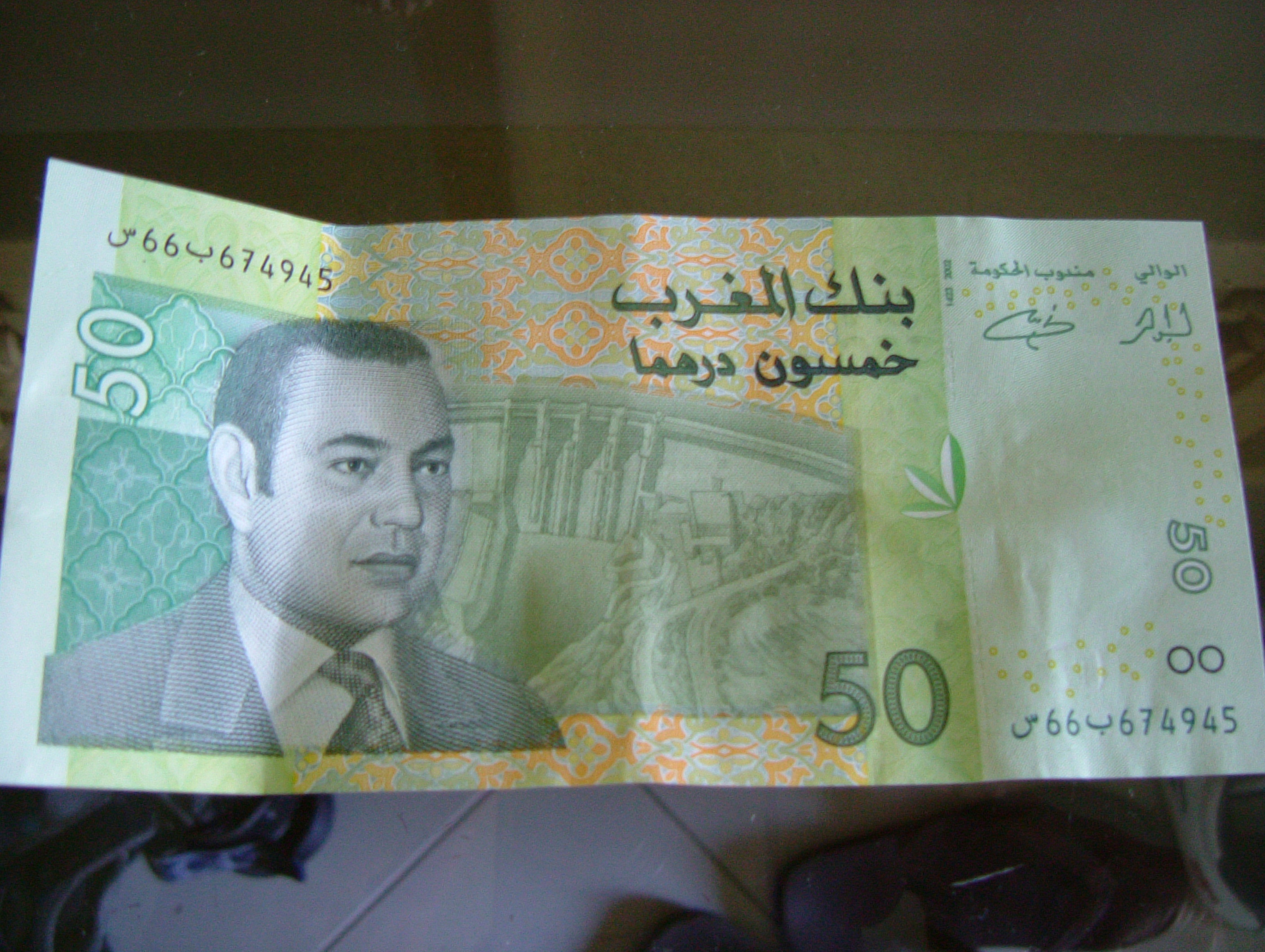 50 Dirham (front)